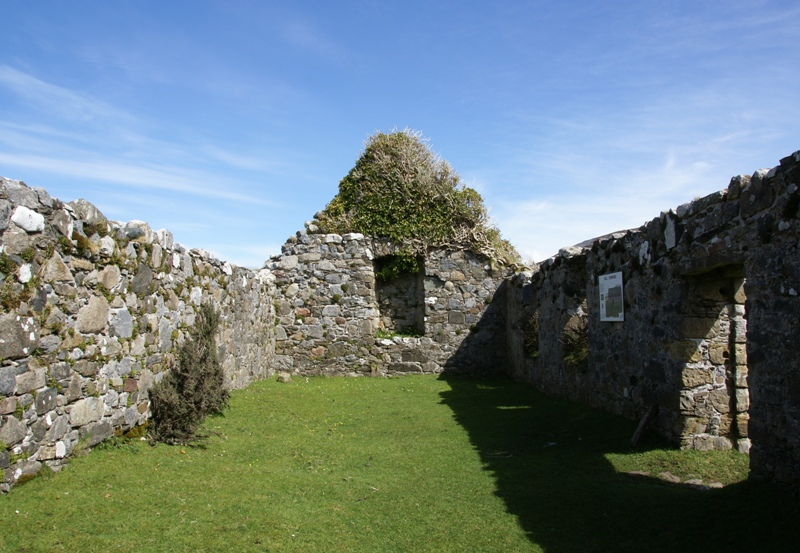 Cill Chriosd, Strath, Skye, Scotland - interior looking east